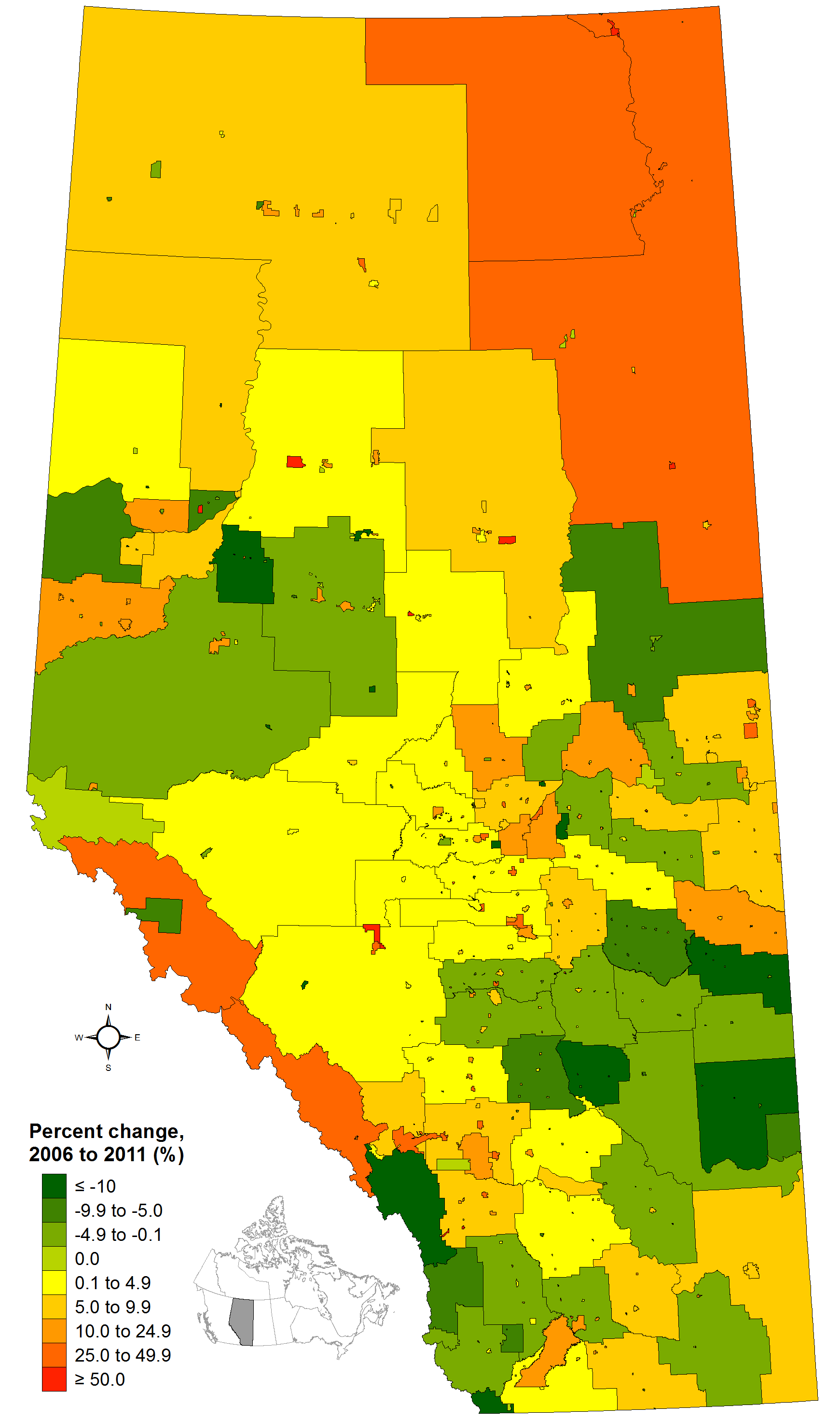 Thematic map presenting percent change in population between 2006 and 2011 censuses for census subdivisions in Alberta.